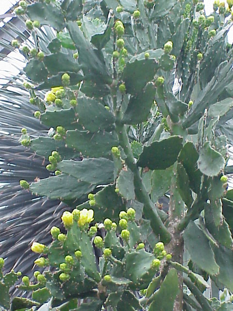 Name Opuntia brasiliensis Family Cactaceae Image no. 2 Permission granted to use under GFDL by Kurt Stueber